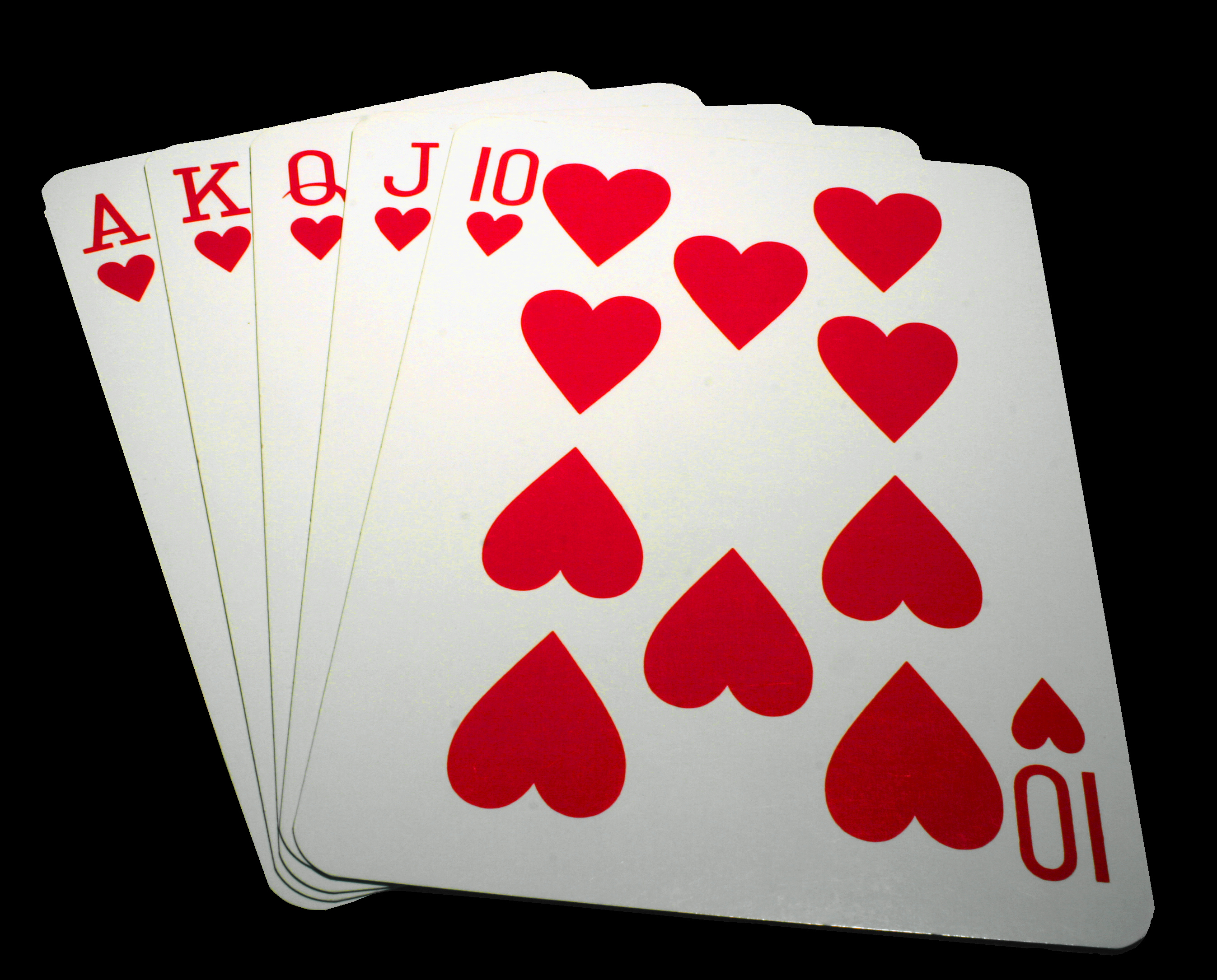 Royal straight flush of hearts.